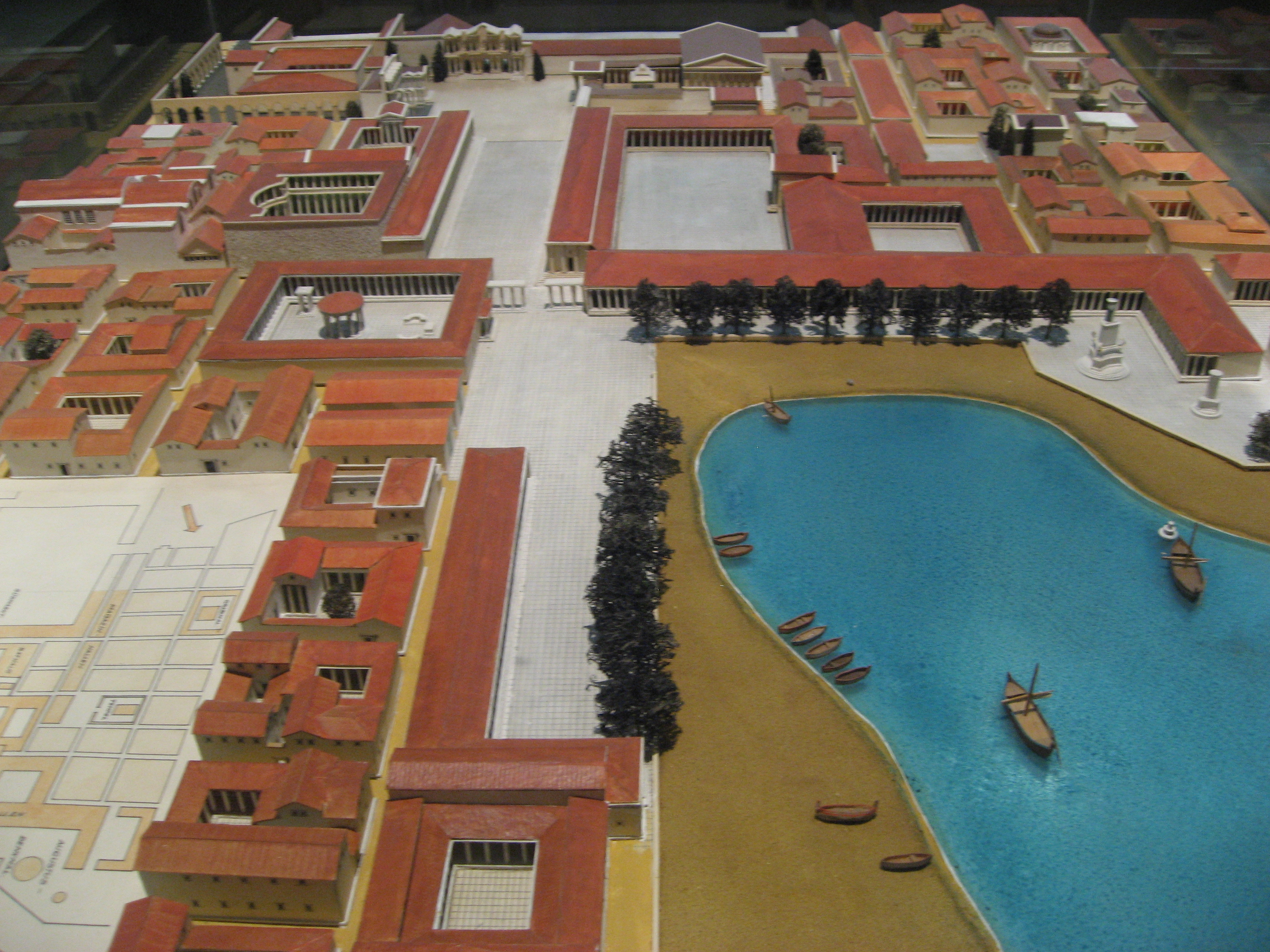 city model of Milet, the markets and surroundings around 200 AD. Models were made in 1968 by H. Schleif and K. Stephanowitz. Scale is 1:300